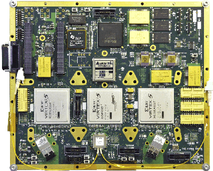 "Space Micro’s Proton300k, a space computer platform with reconfigurable field-programmable gate arrays" "Through a NASA SBIR, Space Micro Inc. developed Hardened-Core, or H-Core, to mitigate the effects of space radiation. The company now incorporates H-Core into its series of high-performance computers, including the Proton300k shown here."